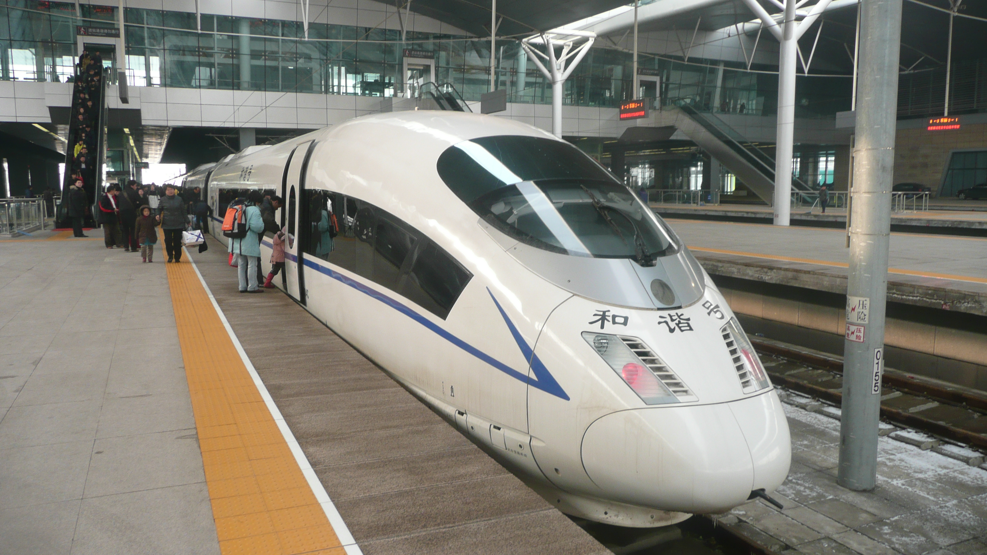 Siemens Velaro China (Velaro CN / CRH3) in Tianjin railway station